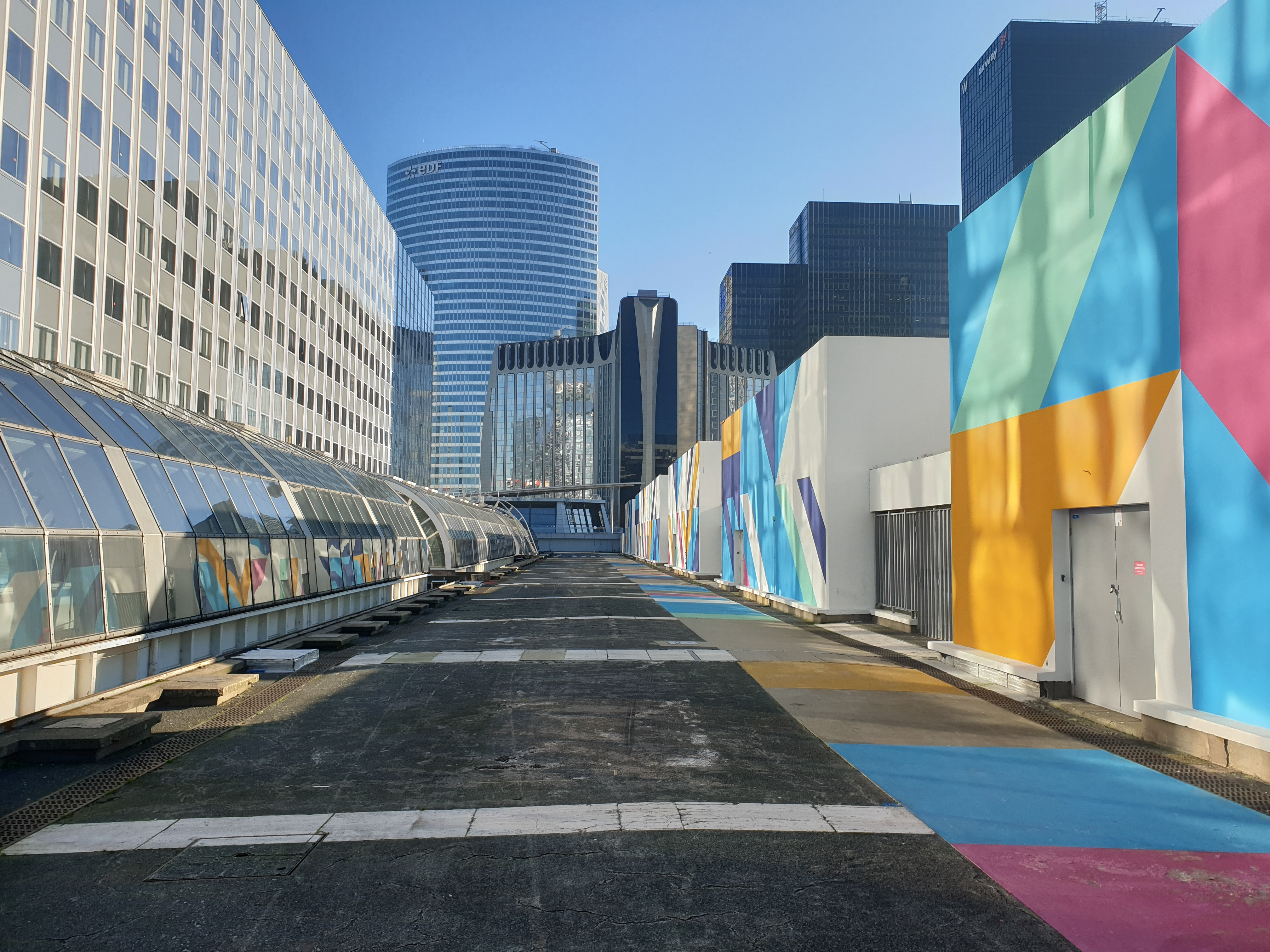 Top of Westfield Les Quatre Temps.